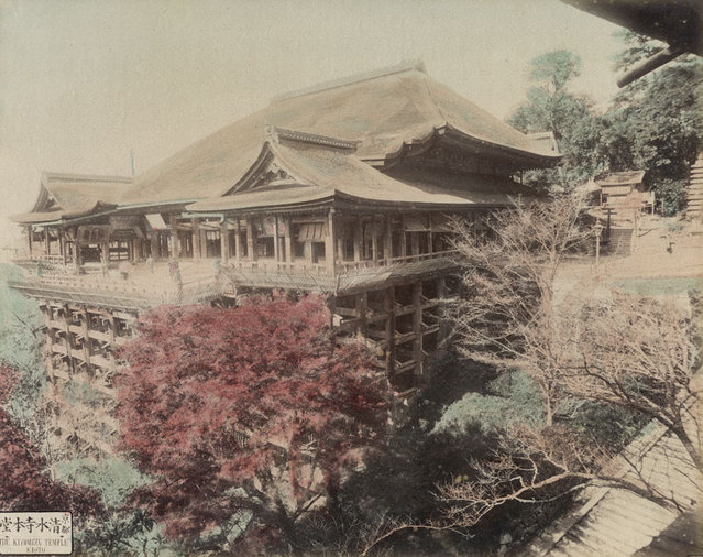 Temple Kiyomizu-dera in Kyoto